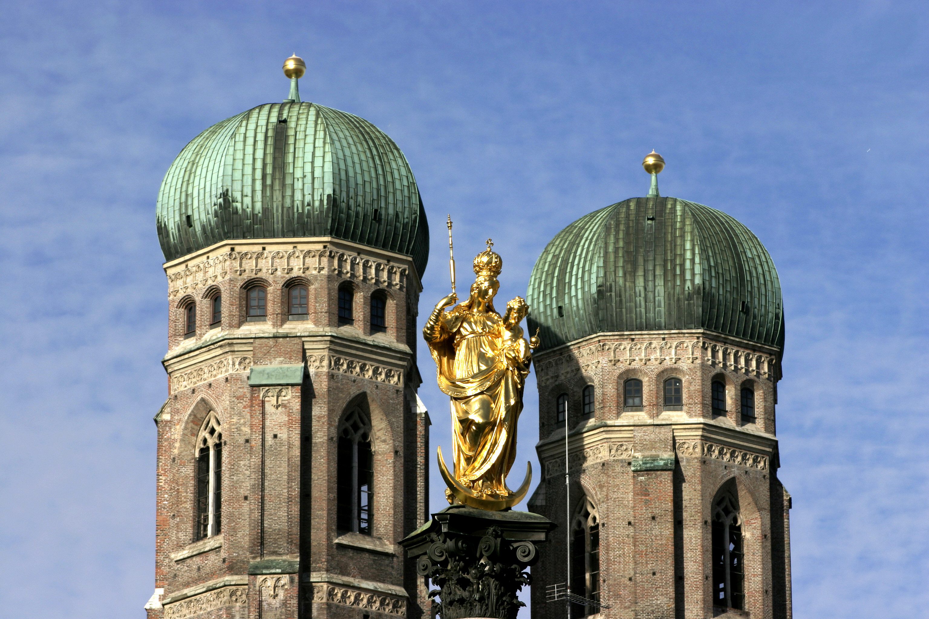 Munich – Maria column in the Marienplatz and the towers of the Frauenkirche